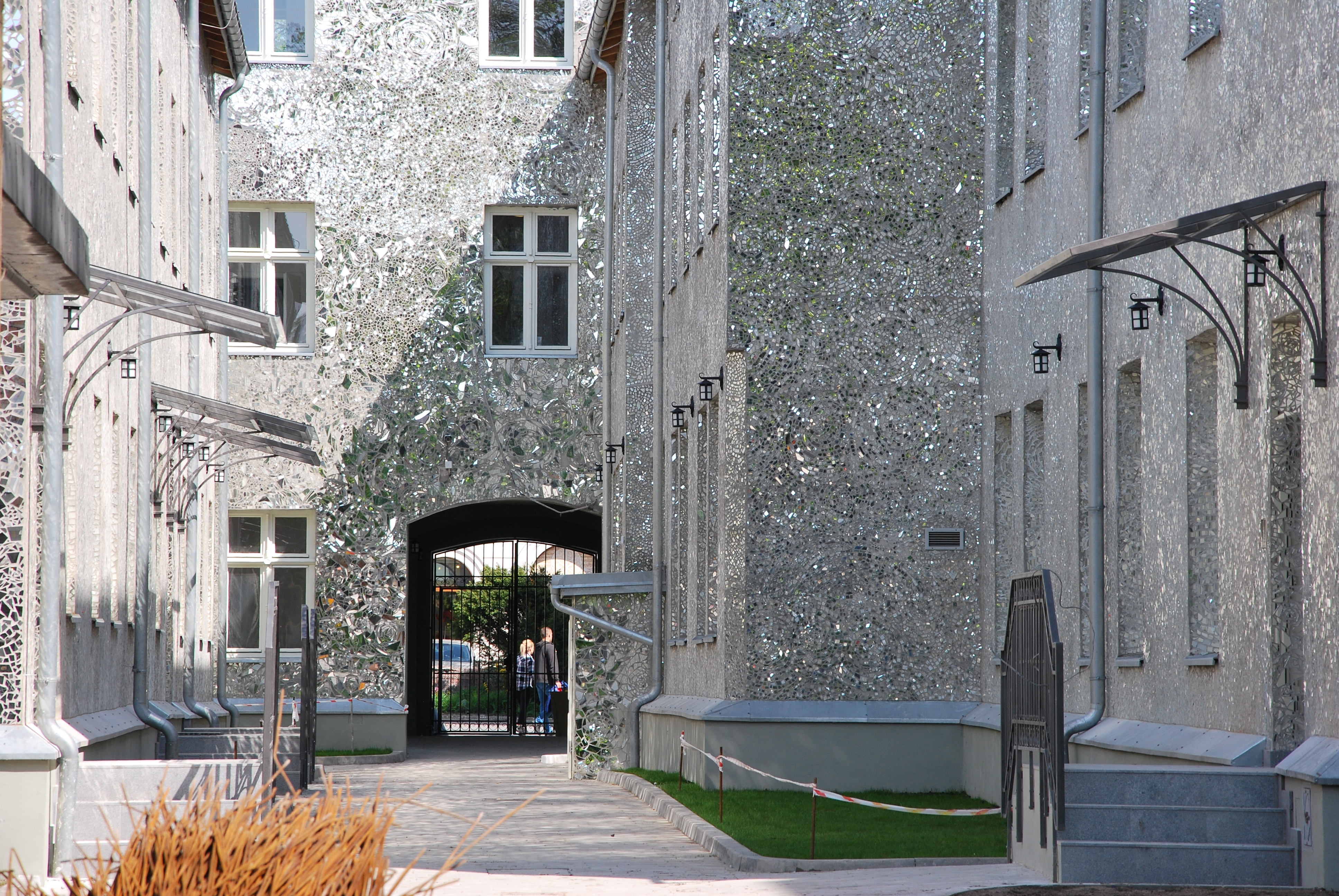 Piotrkowska Street no 3 yard